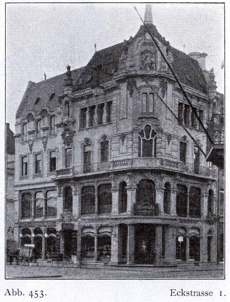 Branscheidt’sches Haus an der Eckstraße 1, Ecke Schadowstraße in Düsseldorf, erbaut 1890, Architekt J. Görres.jpg